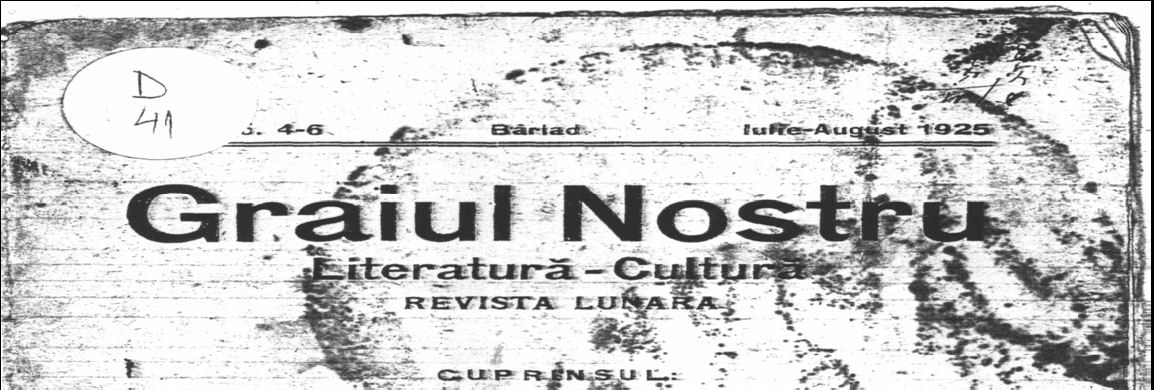 Logo of the Romanian newspaper Graiul Nostru, as used in 1925